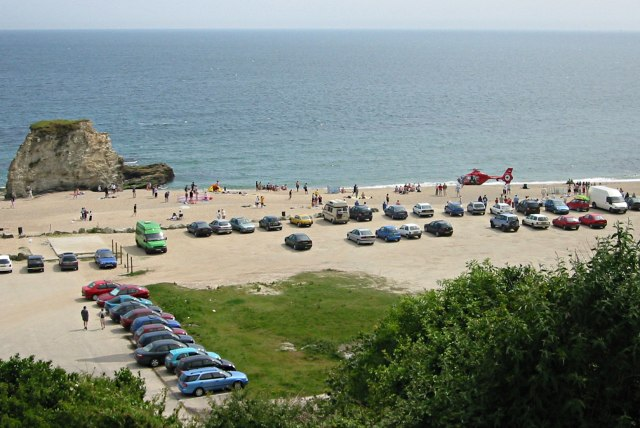 Carlyon Bay Beach, near to Charlestown, Cornwall, Great Britain. The helicopter on the beach is the Cornwall Air Ambulance attending a medical emergency. The rock on the left is called Crinnis Island.